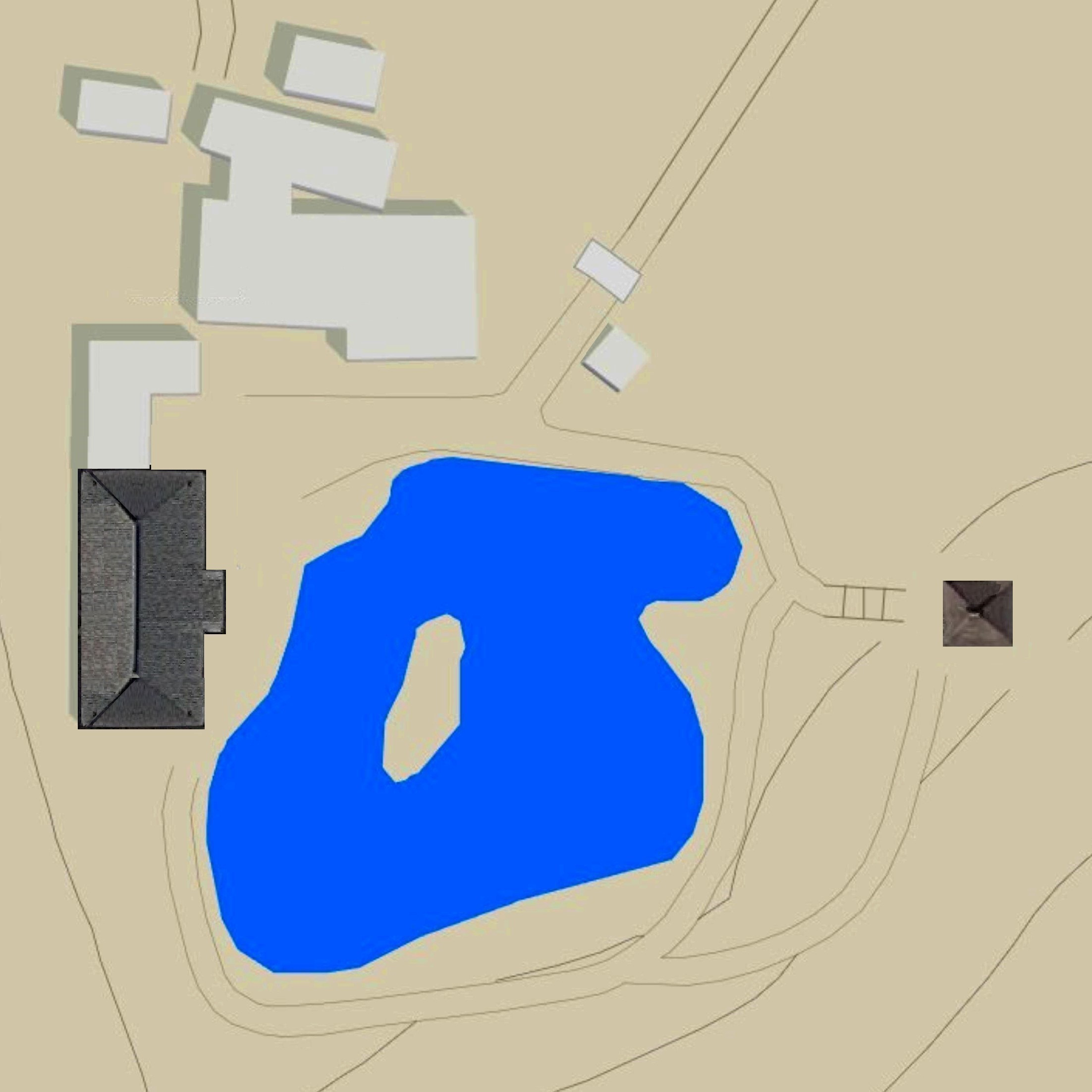 Layout of Joruri-ji buildings